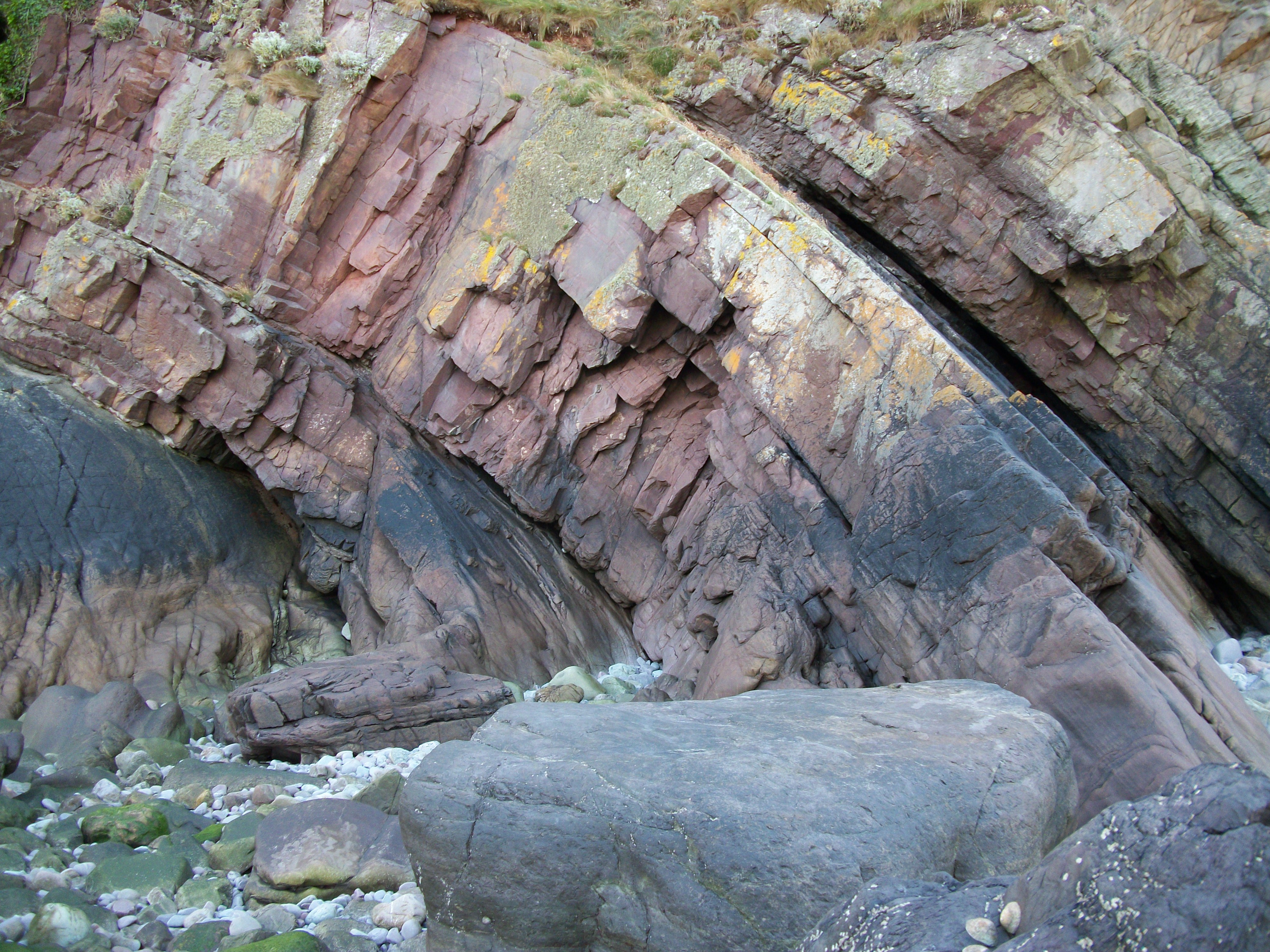 Cliff at Glenthorne Beach